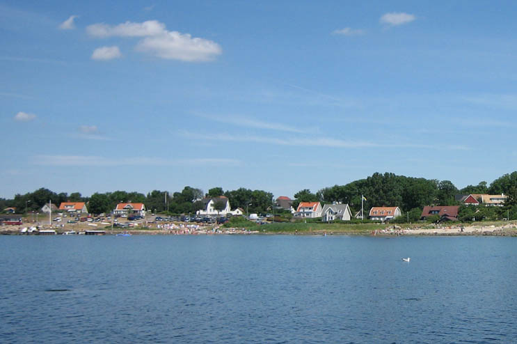 Magnarpsstrand summer 2006. The harbor to the left.